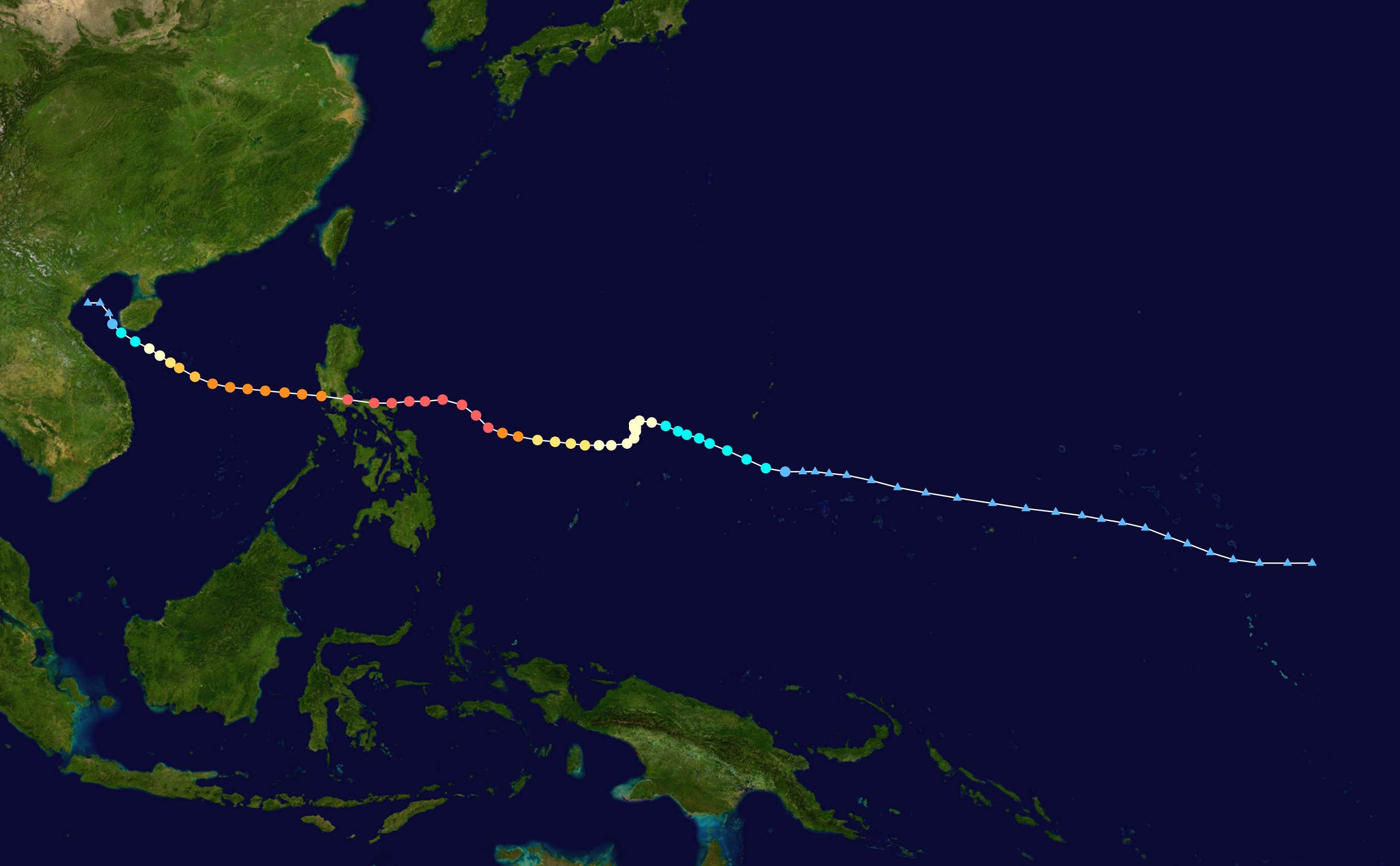 Typhoon Angela 1995 track. Uses the color scheme from the Saffir-Simpson Hurricane Scale.